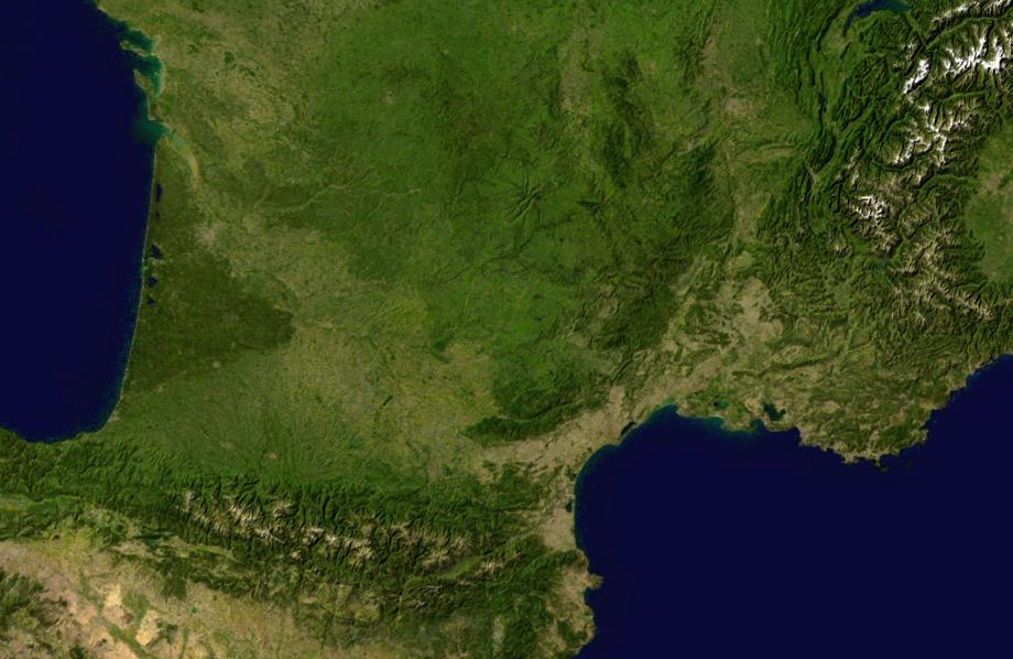 Southern France